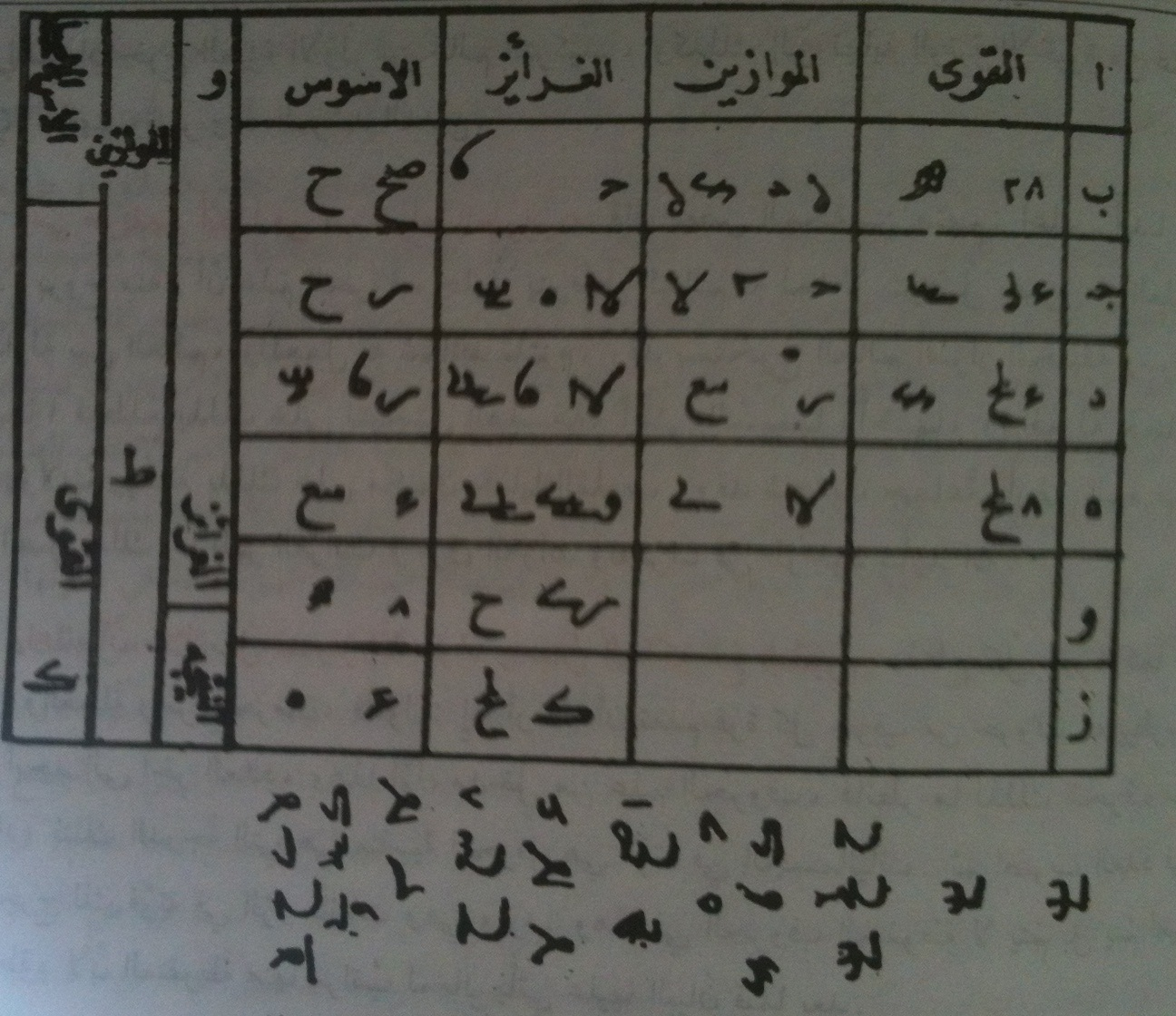 jadwal asimiaa